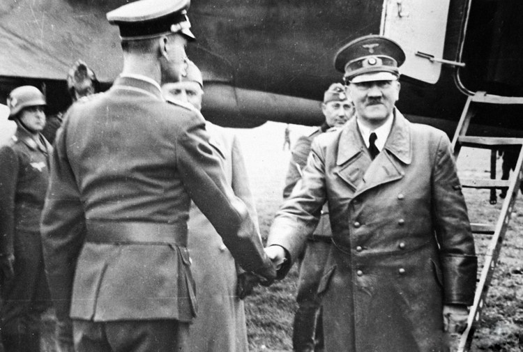 Meeting of Adolf Hitler and Benito Mussolini in Krosno (1941-08-27)